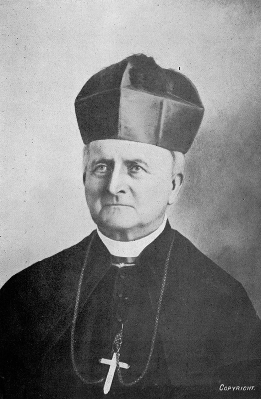 The Most Reverend Robert Dunne, D. D., Archbishop of Brisbane, Queensland, Australia